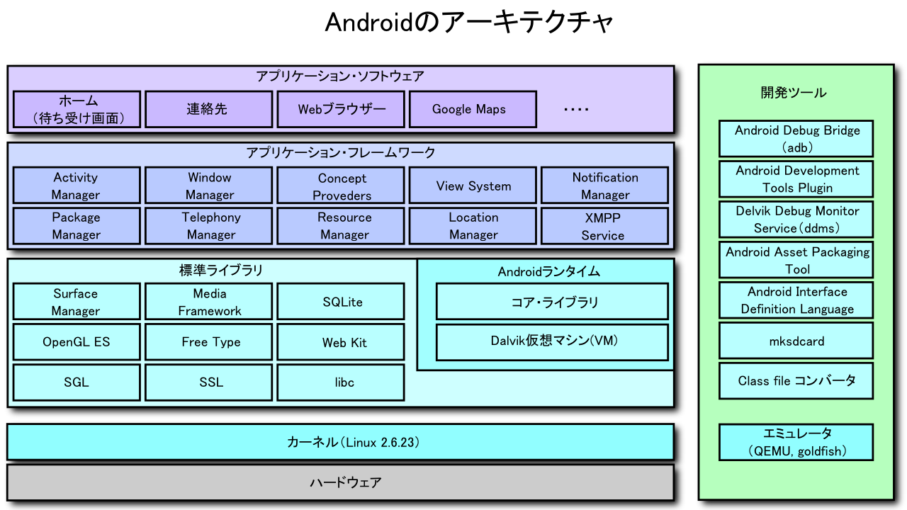 Architecture of the Android